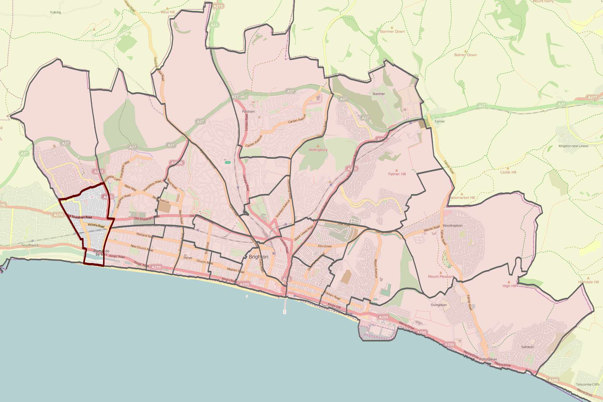 Map of Brighton and Hove wards with one ward highlighted